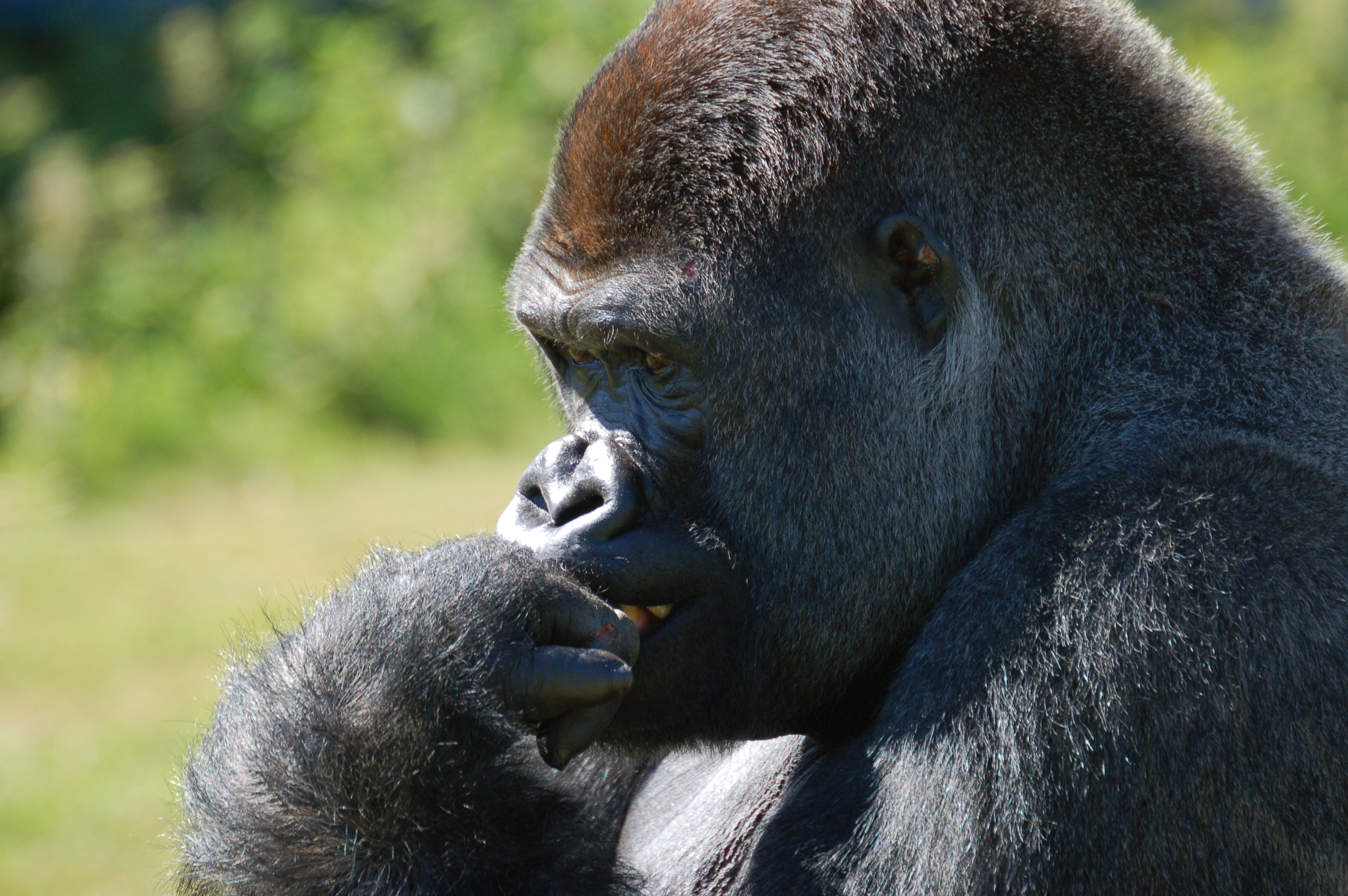 Male western lowland gorilla contemplating life at port lympne wildlife park.